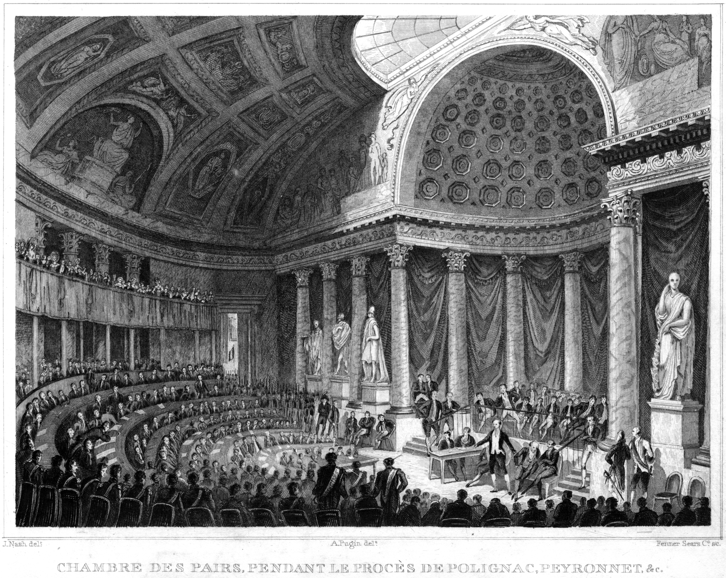 Catalyzed by the decreasing popularity of Charles X and the continual economic hardships of the working class, the July Revolution of 1830 ended the Bourbon monarchy and brought Louis-Philippe to the throne. On December 15, 1830, the trial of Charles X's ministers opened at the Chamber of Peers, in the presence of heavy security forces and public spectators demanding that they be found guilty of treason and put to death. Although all of the ministers were found guilty, they were not sentenced to death, and national troops feared additional outbreaks of violence among the angry crowds. Surprisingly, the troops were able to contain the demonstrators, and the trial marked a symbolic conclusion to the July Revolution of 1830.